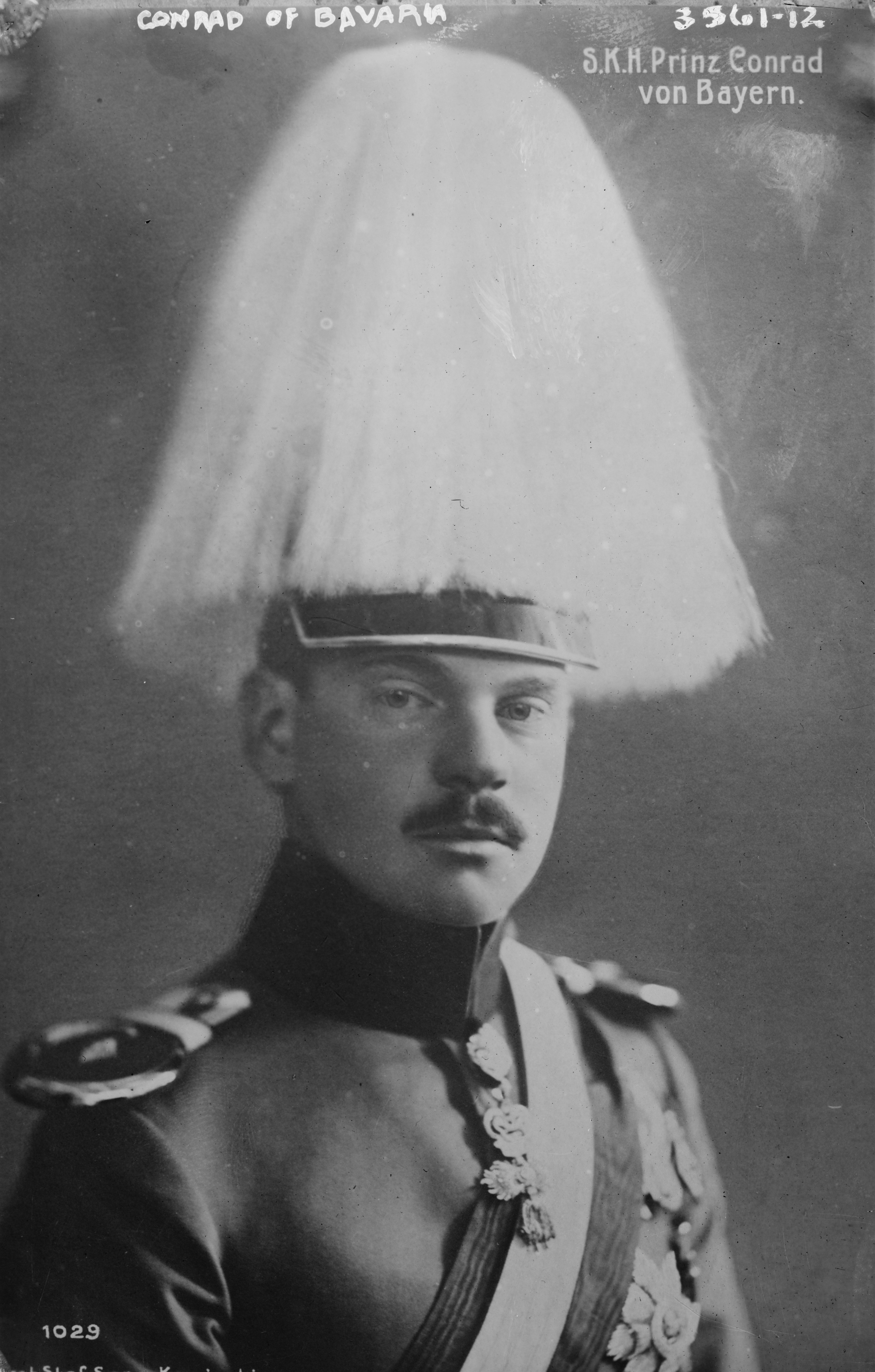 Title: Conrad of Bavaria Abstract/medium: 1 negative : glass ; 5 x 7 in. or smaller.